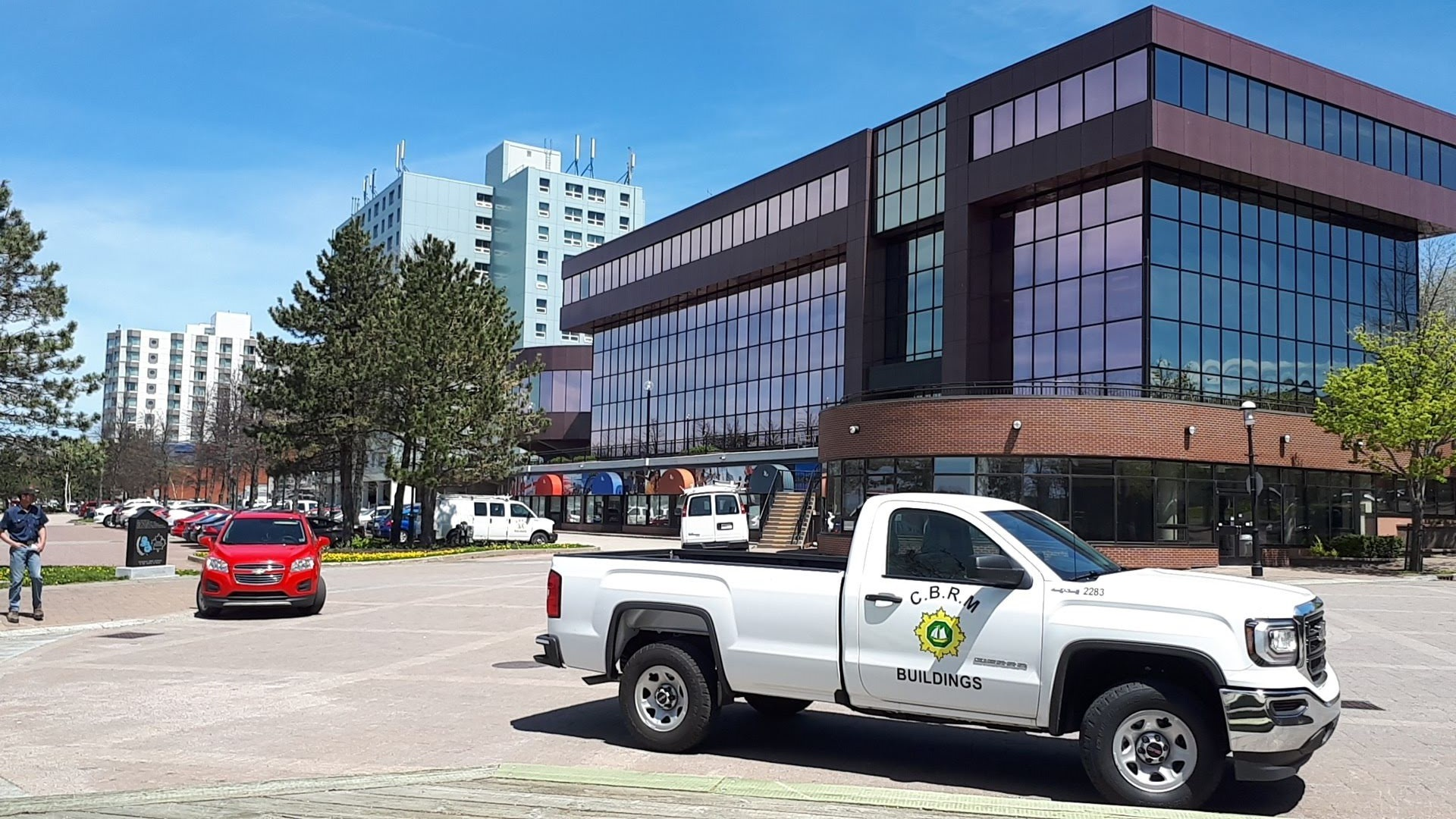 Civic Centre plaza along with seniors complex and hotels